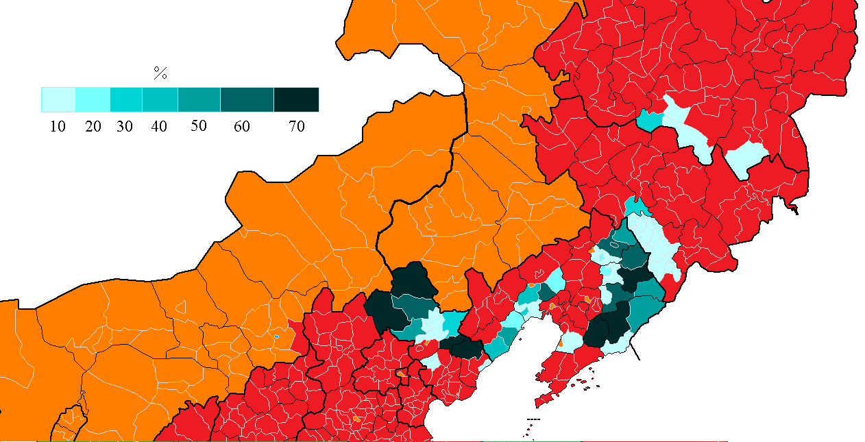 Percent of manchu in counties of China